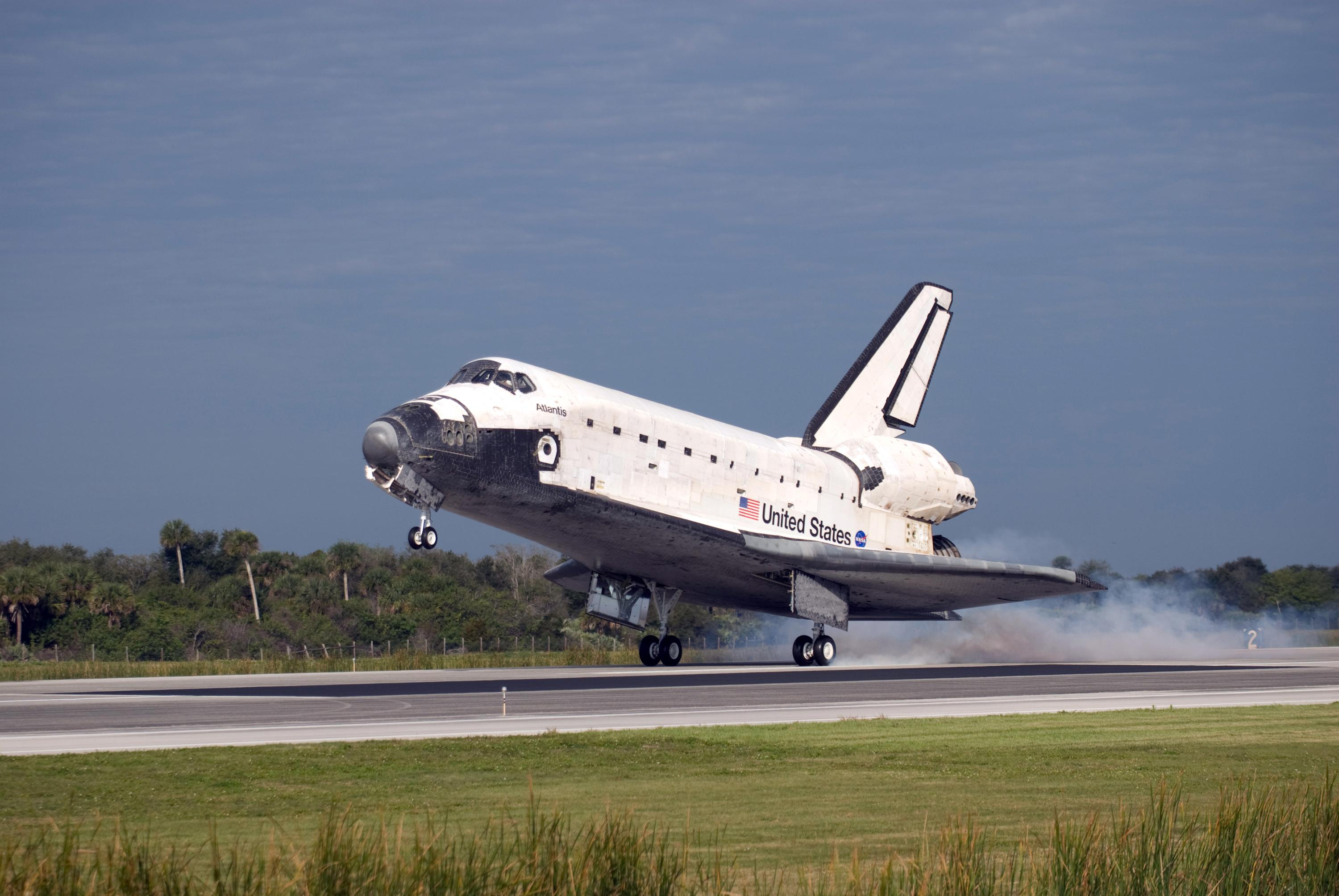 Touchdown of the Space Shuttle Atlantis on the runway 15 at the Kennedy Space Center Shuttle Landing Facility completing a nearly 13-day mission.